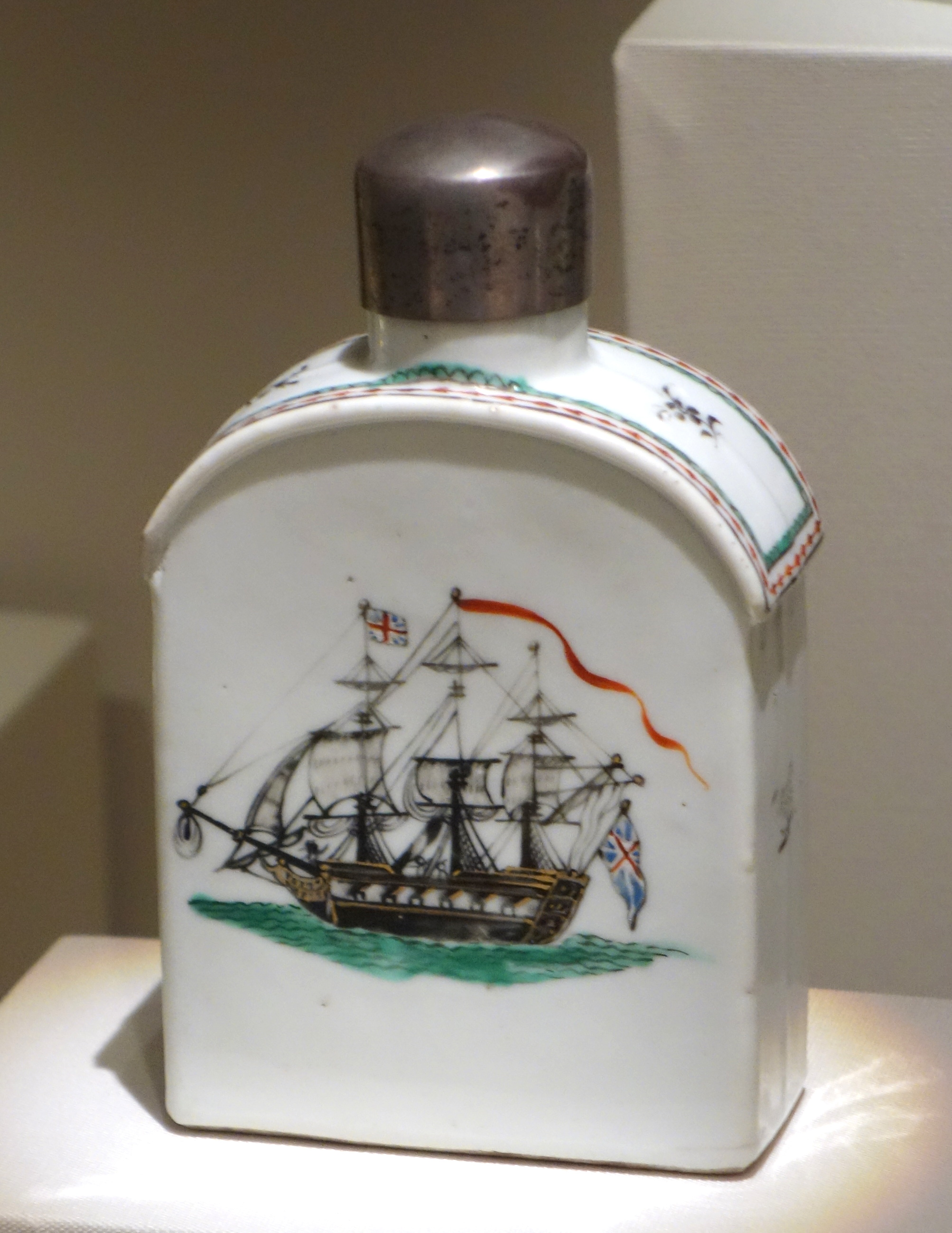 Exhibit in the Chazen Museum of Art, University of Wisconsin-Madison, Madison, Wisconsin, USA. This artwork is old enough so that it is in the public domain.